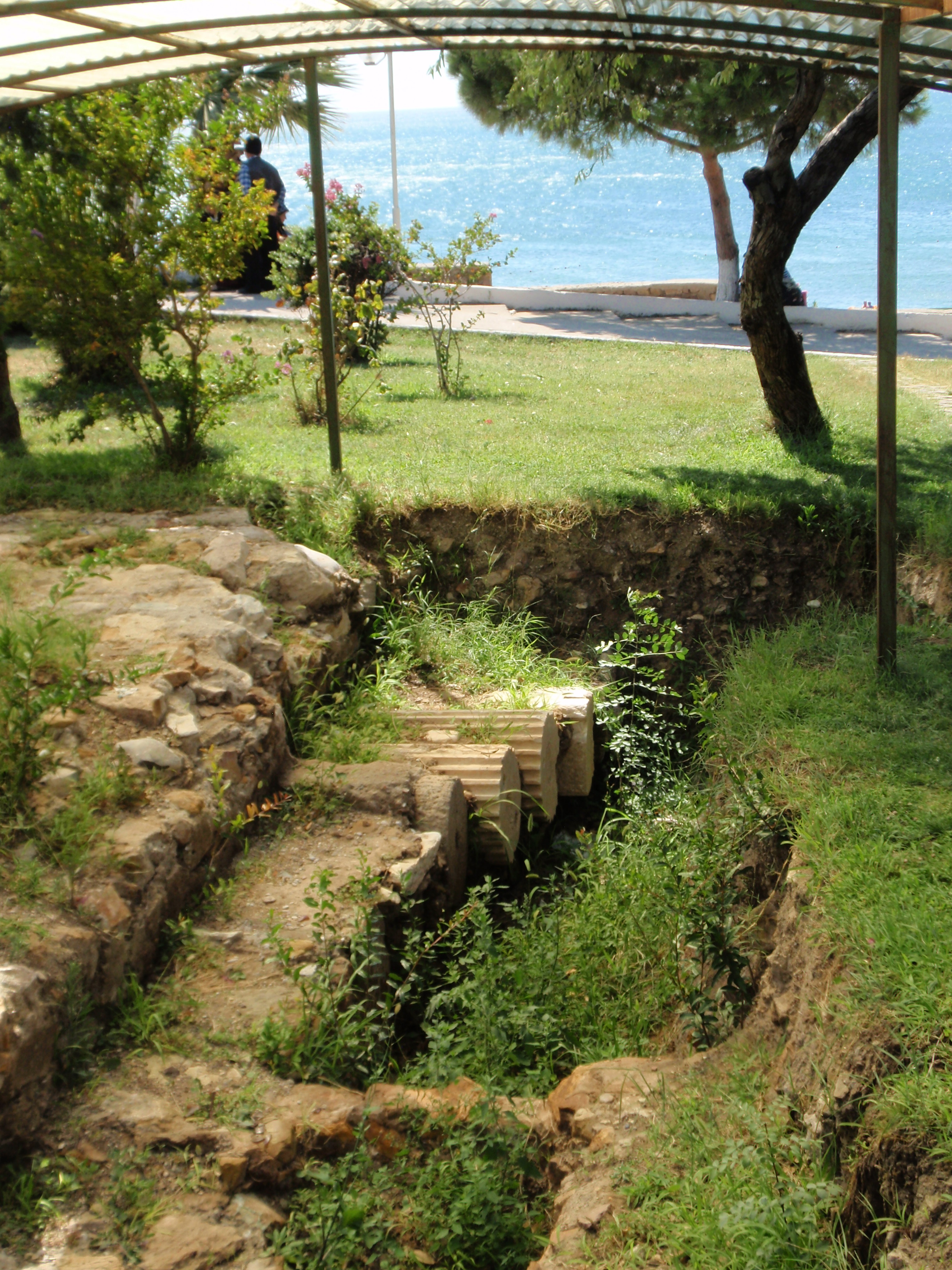 ören, burhaniye